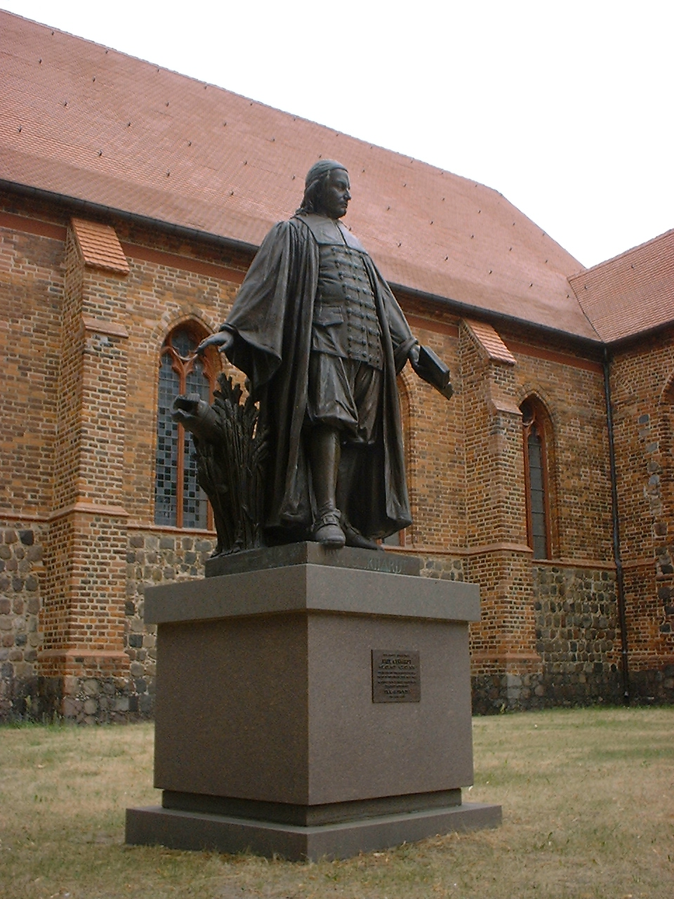 Gerhardt Memorial in Mittenwalde in Brandenburg, Germany